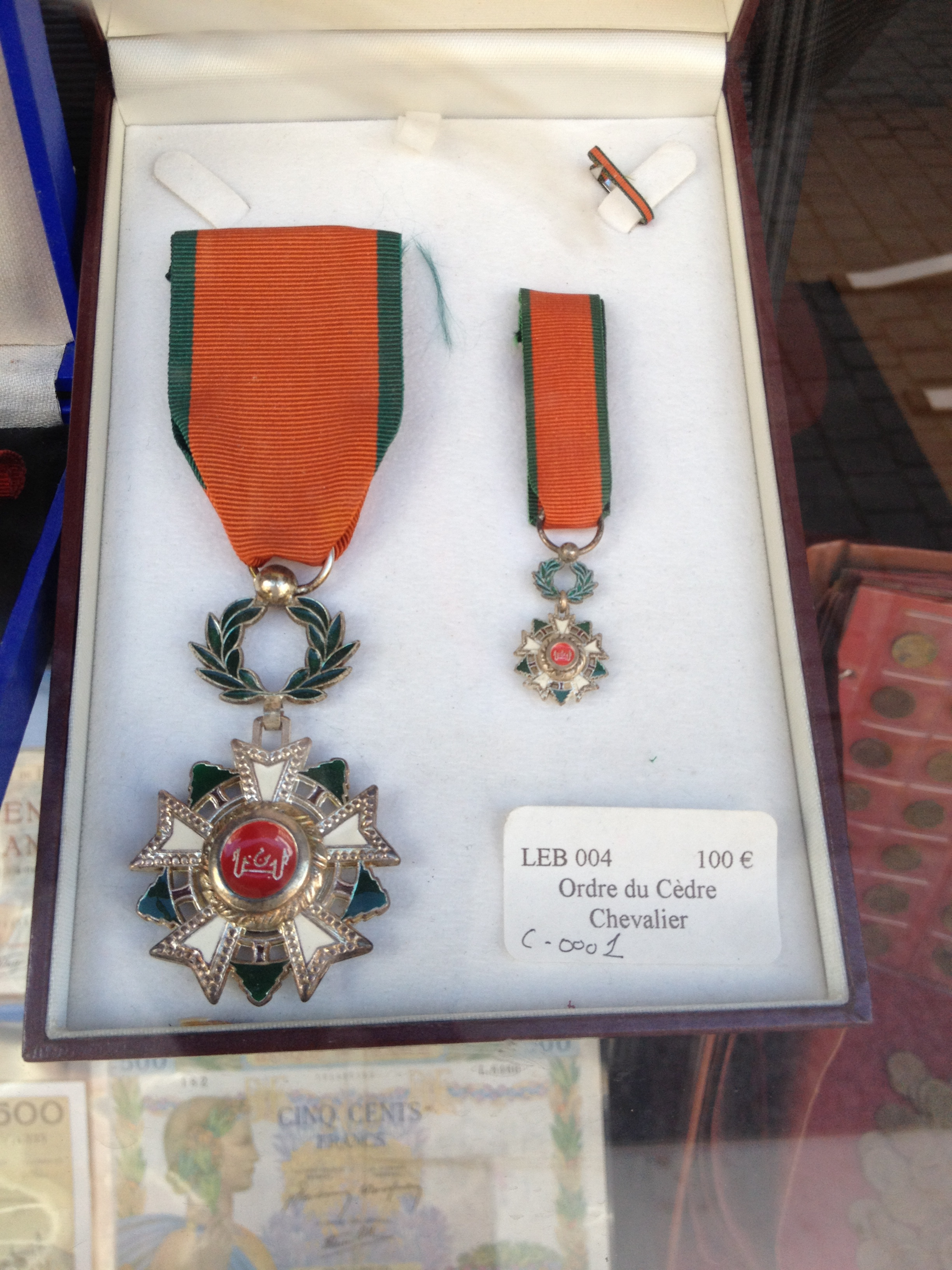 Ordre du Cedre Chevallier snapshot from Bordeaux In an antique-shop no French article yet